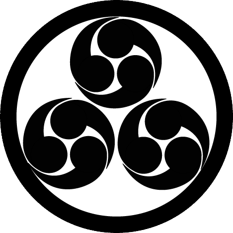 My house Mark.